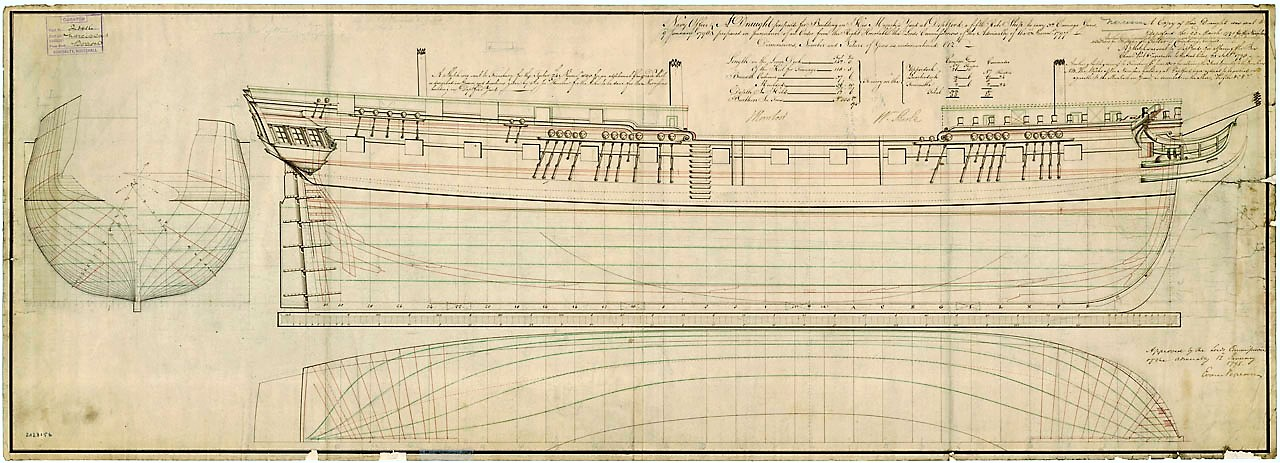 Narcissus (1801), Tartar (1801), Cornelia (1808) Scale 1:48. Plan showing the body plan, sheer lines with later alterations to gun ports and longitudinal half breadth proposed and approved for Narcissus (1801), and later Tartar (1801), both 32-gun, Fifth Rate Frigates. The plan also relate to Cornelia (1808), of the same class. Signed J. Henslow and W.Rule. (Surveyors of the navy) NARCISSUS 1801